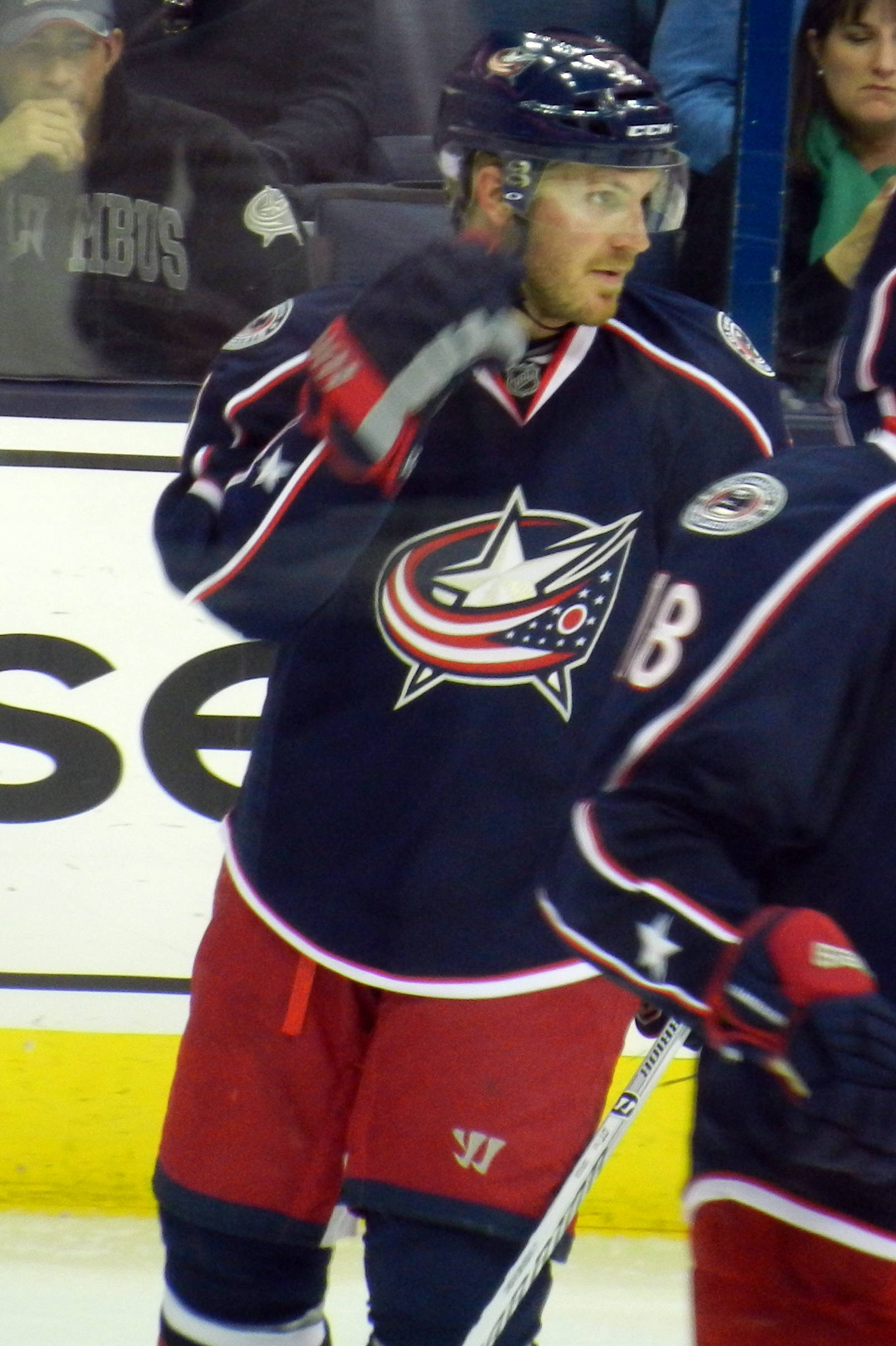 James Wisniewski playing for the Columbus Blue Jackets during the 2013-14 season